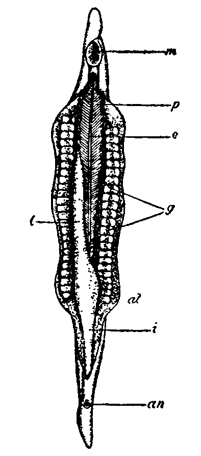 Amphioxus lanceolatus laid open ventrally. (After Rathke, slightly altered.) m, Mouth appearing as an elongated slit when relaxed (as in the lamprey); p, perforated pharynx; e, endostyle; g, gonads; l, liver; at, level of atriopore; i, intestine; an, anus. In this species the atrium is produced as an asymmetrical blind pouch behind the atriopore as far as the anus. Illustration from 1911 Encyclopædia Britannica, article Amphioxus.